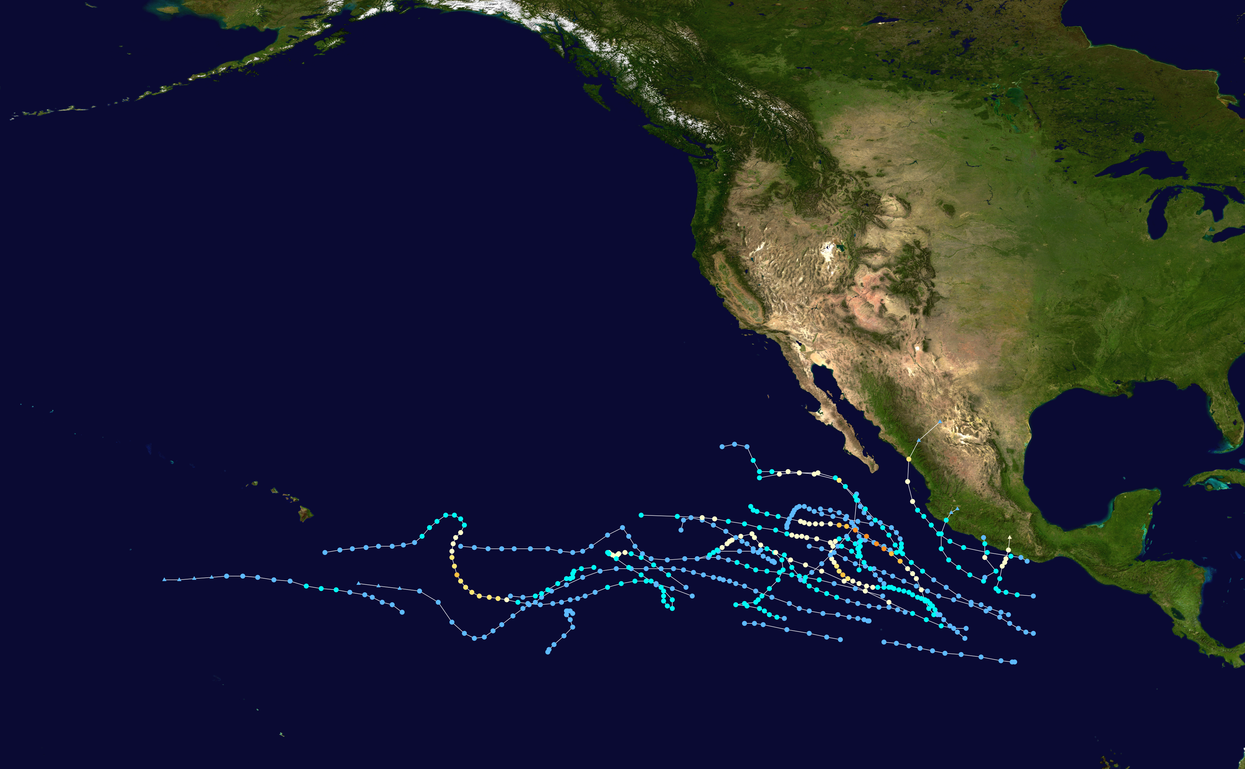 Track map of all storms of the 1974 Pacific hurricane season. The points show the location of the storm at 6-hour intervals. The colour represents the storm's maximum sustained wind speeds as classified in the Saffir–Simpson hurricane wind scale (see below), and the shape of the data points represent the nature of the storm, according to the legend below. Saffir–Simpson hurricane wind scale Tropical depression≤38 mph≤62 km/h Category 3111–129 mph178–208 km/h Tropical storm39–73 mph63–118 km/h Category 4130–156 mph209–251 km/h Category 174–95 mph119–153 km/h Category 5≥157 mph≥252 km/h Category 296–110 mph154–177 km/h Unknown Storm typeTropical cycloneSubtropical cycloneExtratropical cyclone / Remnant low / Tropical disturbance